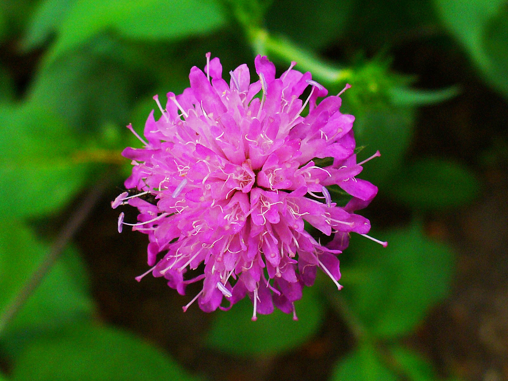 Knautia drymeia, Dipsacaceae, Hungarian Widow Flower, inflorescence; Botanical Garden KIT, Karlsruhe, Germany.